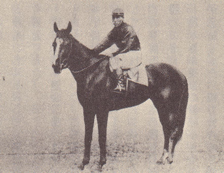 banzai (racehorse)